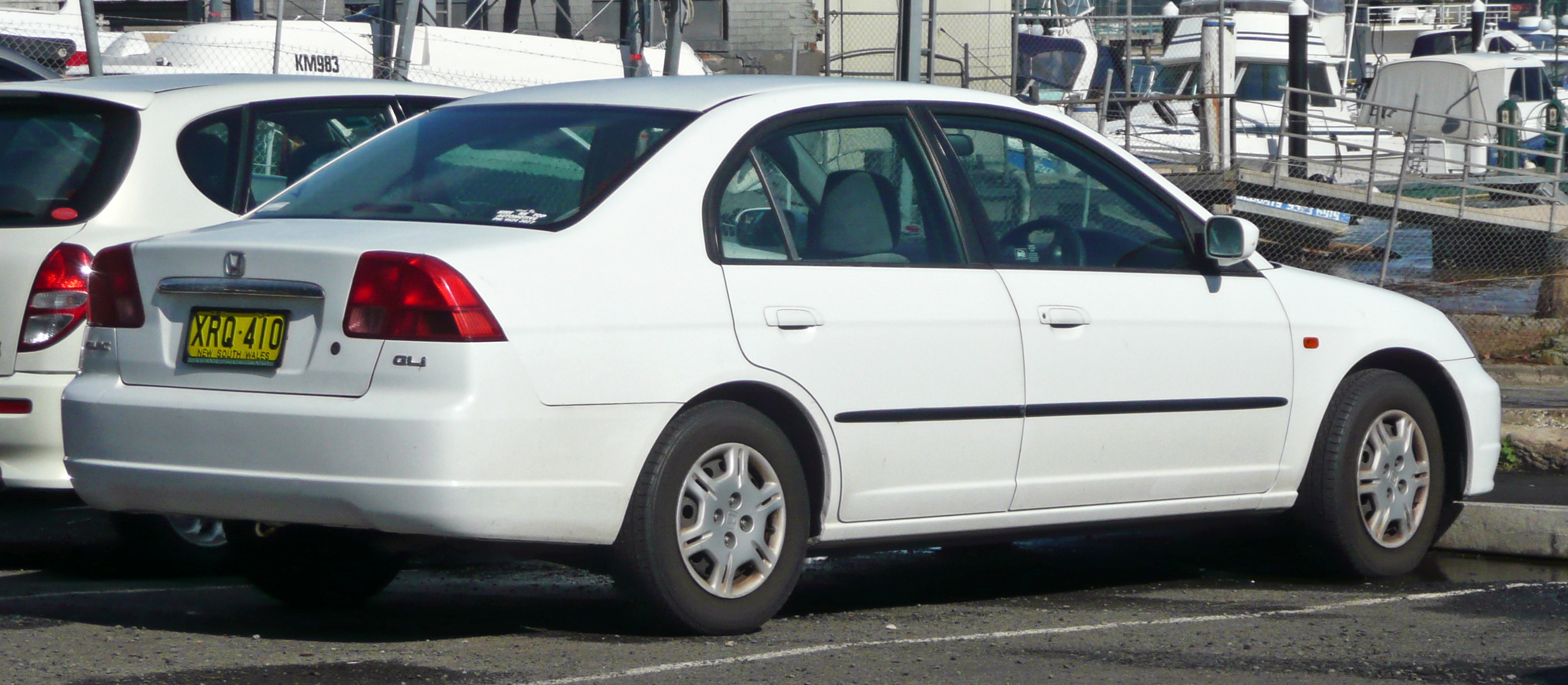 2001 Honda Civic GLi sedan. Photographed in Cronulla, New South Wales, Australia.